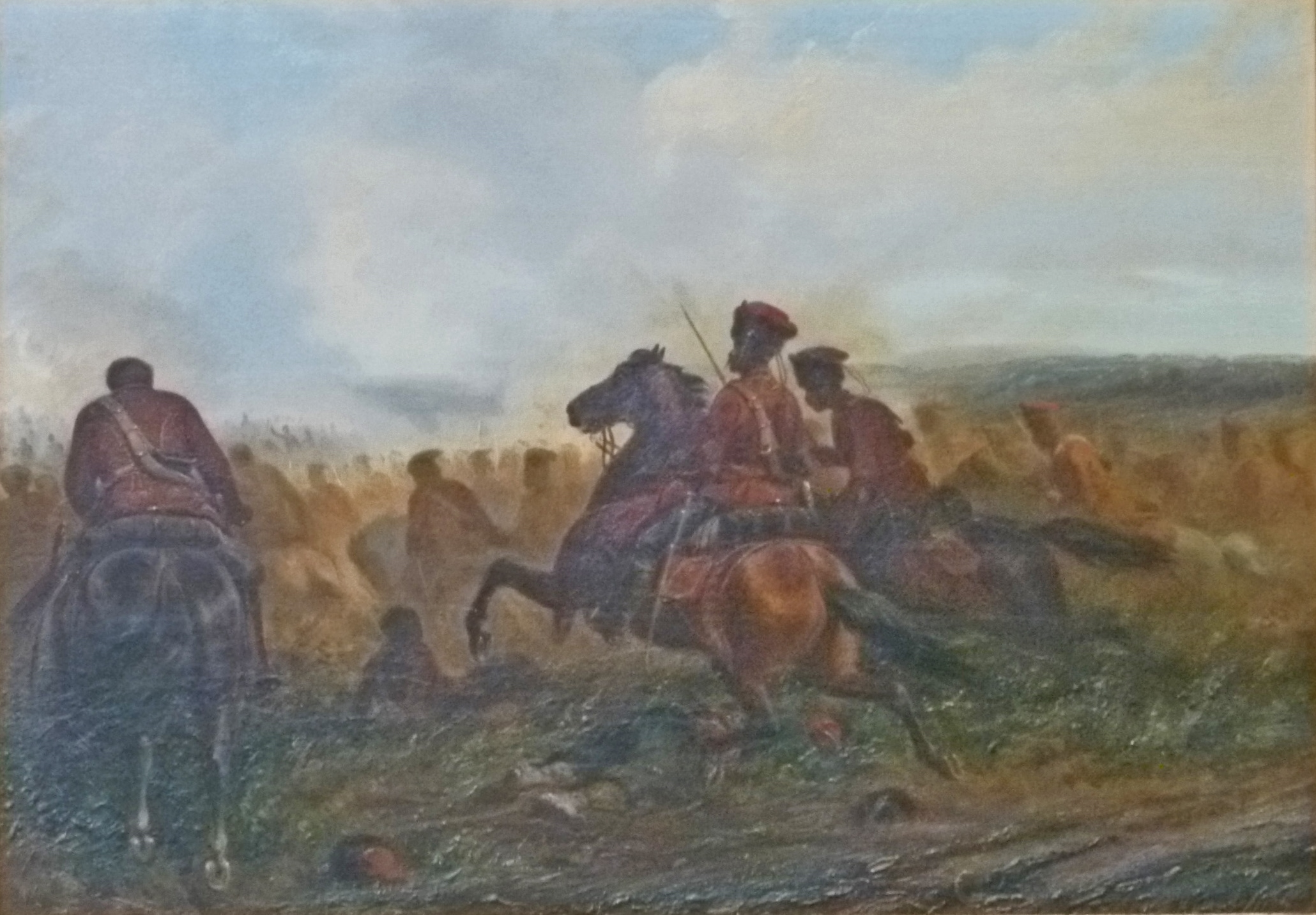 "Charge of the Hussards of the Prussian Guard at the Battle of Woerth, 6 Aug. 1870", oil on panel by Jules van Imschoot; 32 x 44 cm; private property